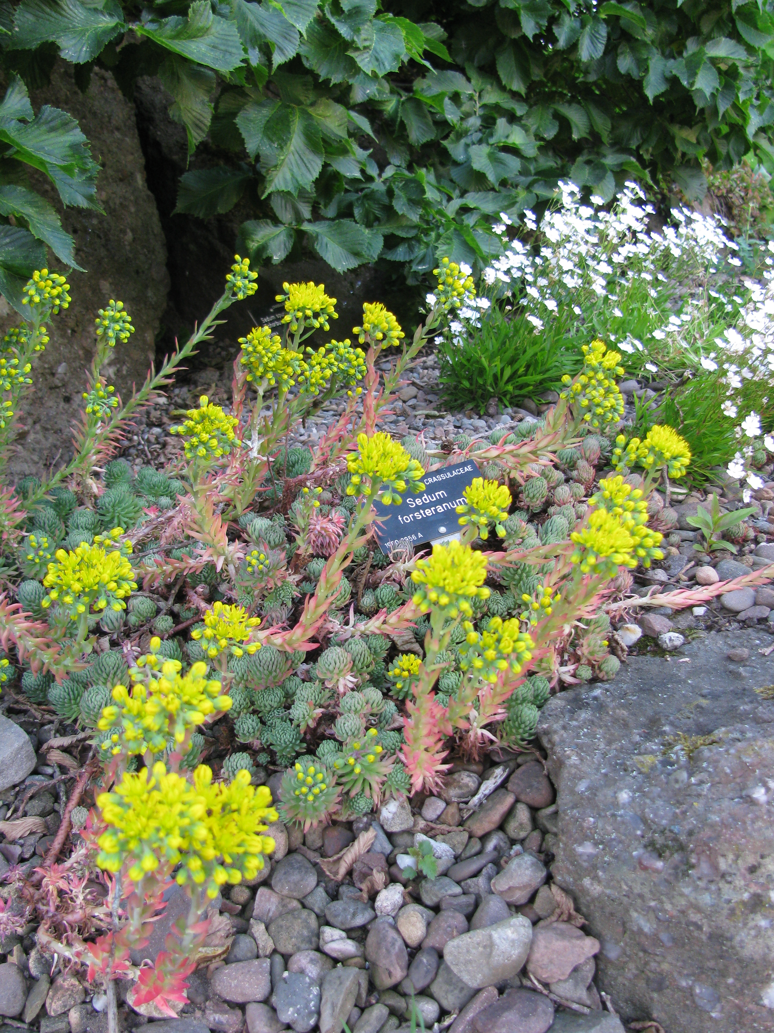 Rock Stonecrop Royal Botanic Garden Edinburgh: Accession number 1980.2956 A